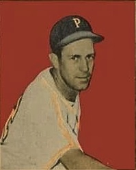 Pittsburgh Pirates pitcher Murry Dickson.